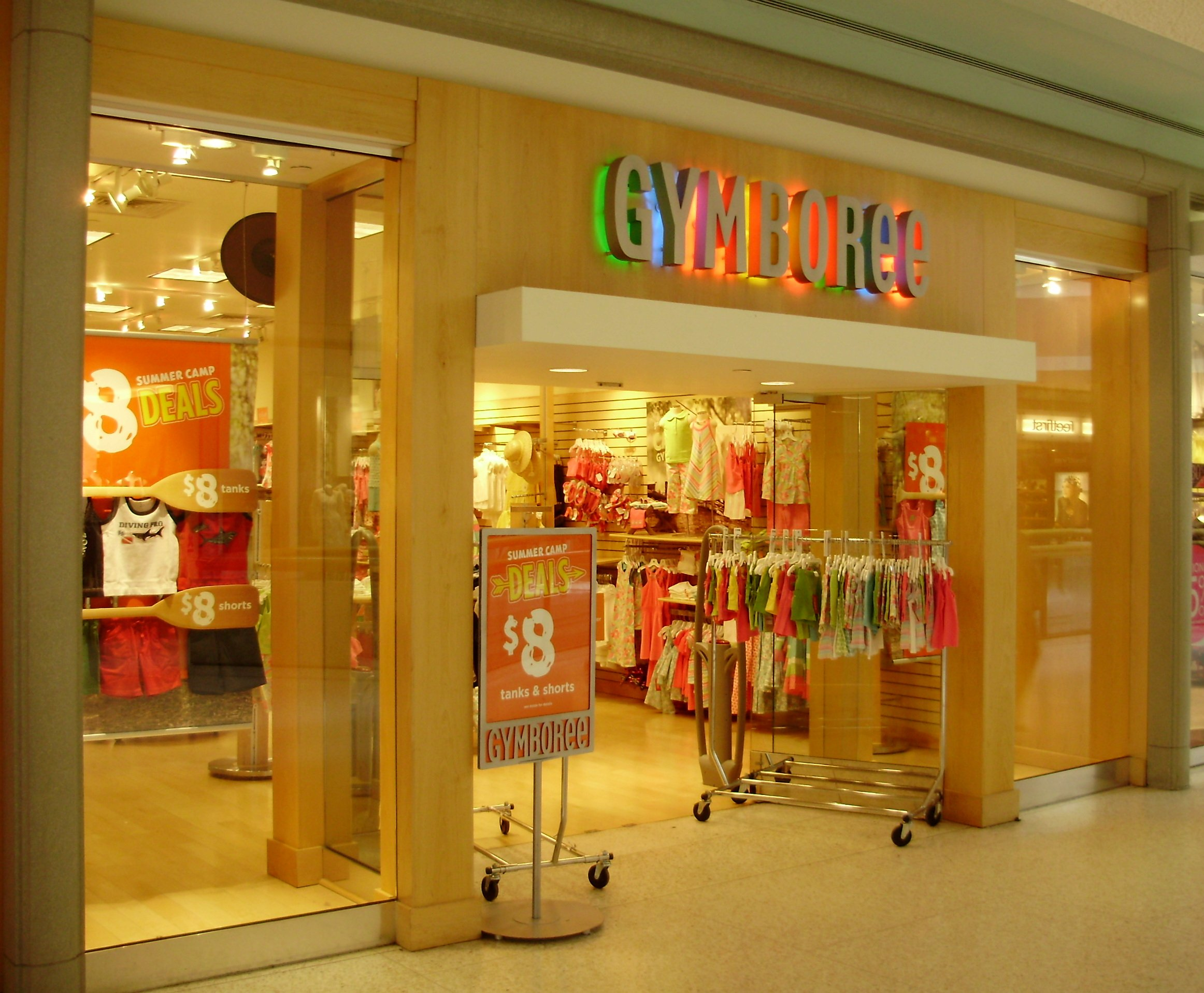 A Gymboree store in the Scarborough Town Centre in Scarborough, Canada.